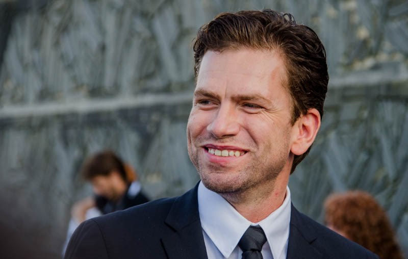 Nikolaj Lie Kaas at the San Sebastian Film Festival